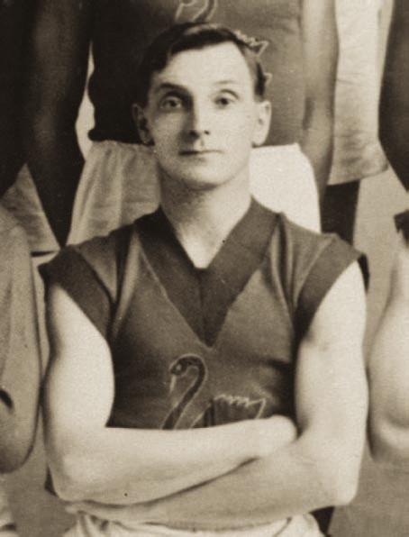 Photograph circa 1924 of Australian rules football player William 'Nipper' Truscott.